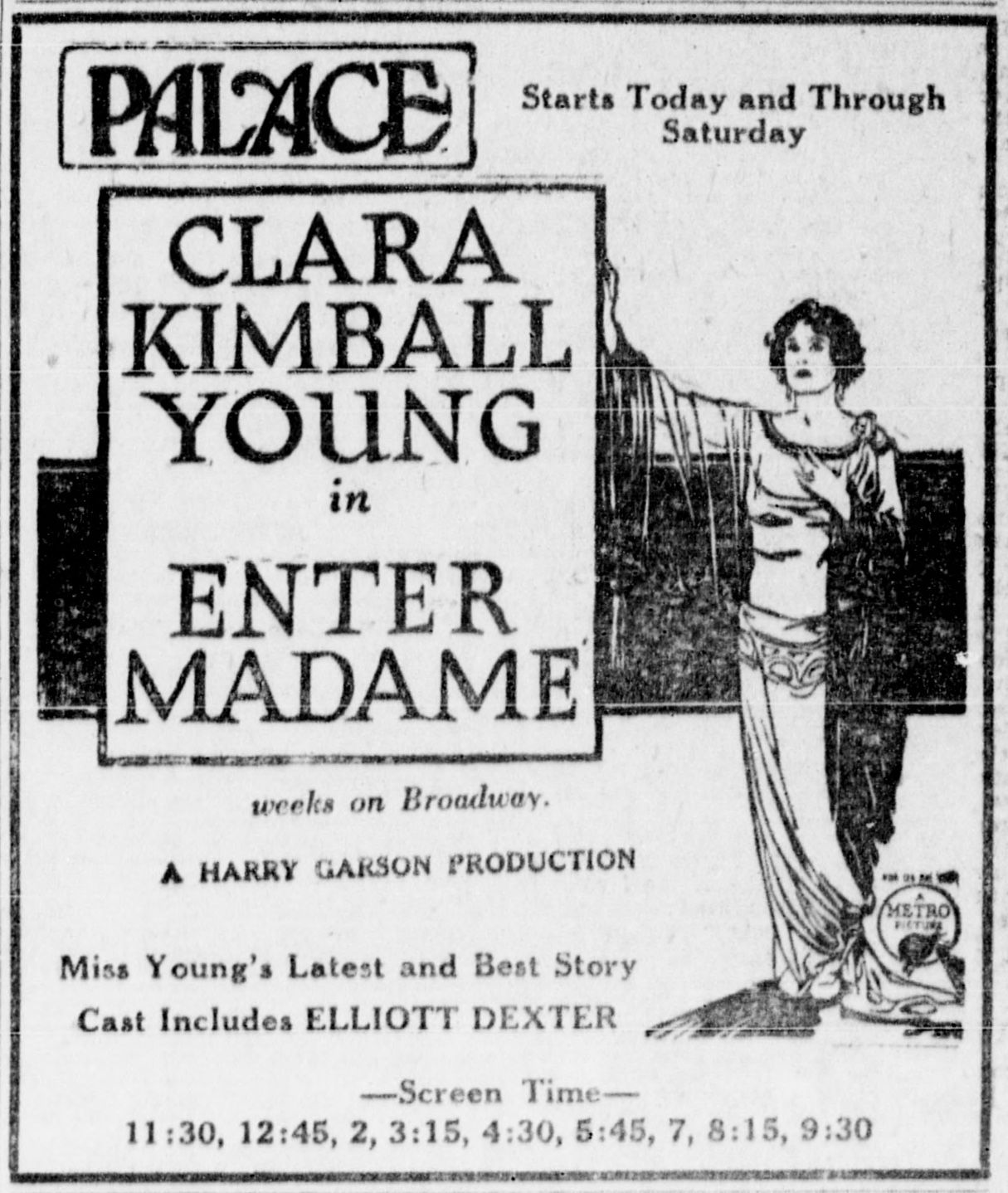 Enter Madame (1922) newspaper advertisement in the The Morning Tulsa Daily World.